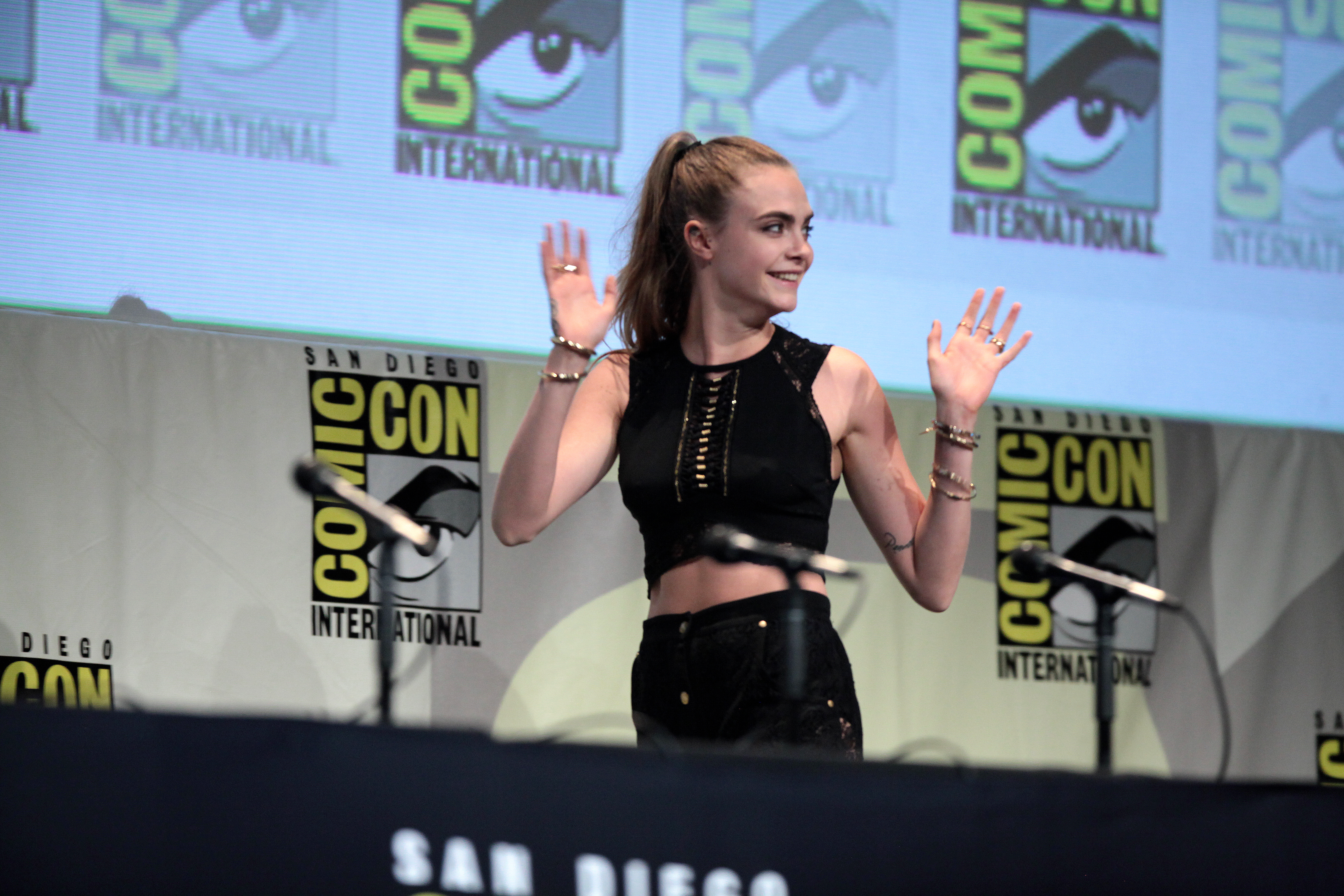 Cara Delevingne speaking at the 2015 San Diego Comic Con International, for "Suicide Squad", at the San Diego Convention Center in San Diego, California.